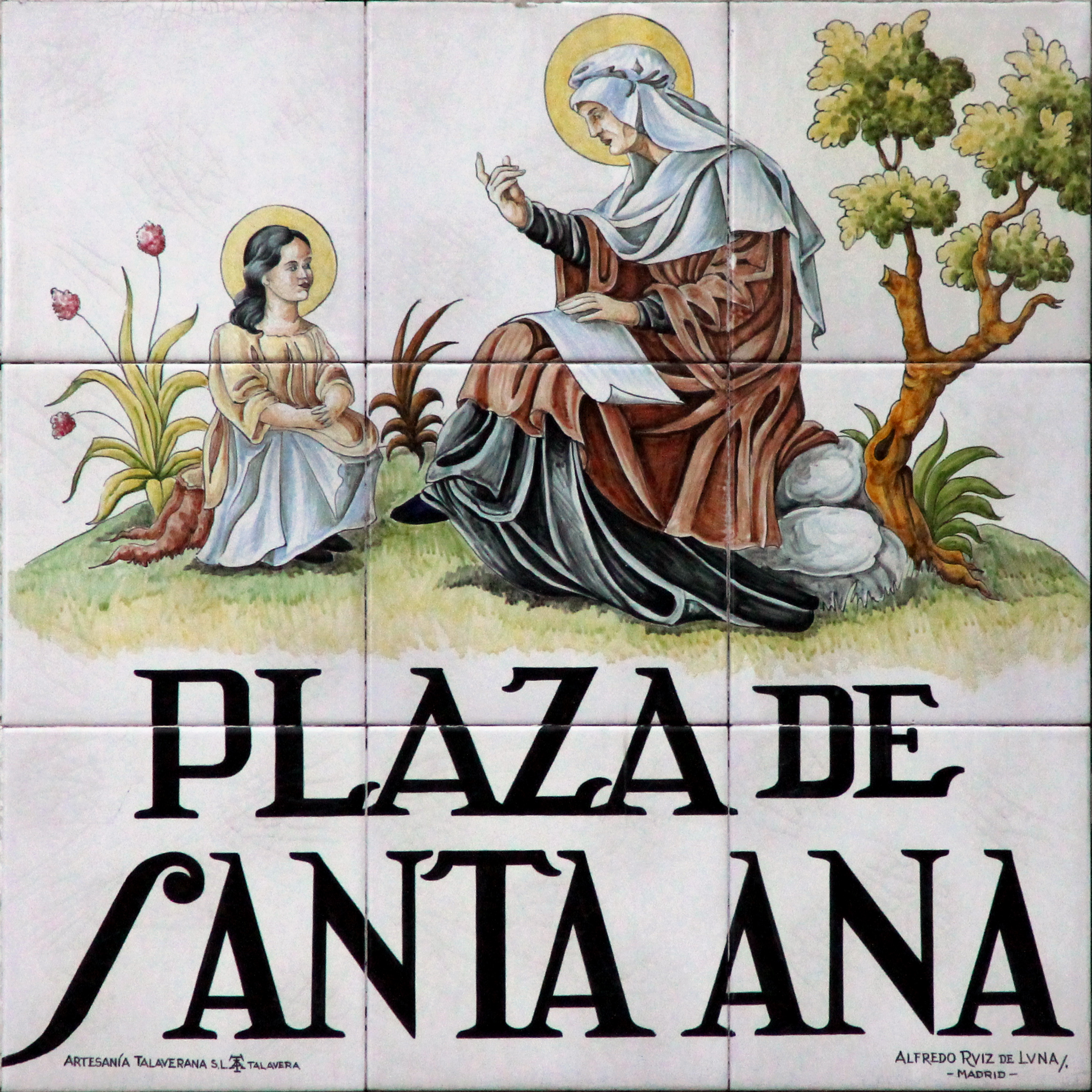 Sign of Plaza de Santa Ana (square) in Madrid (Spain).